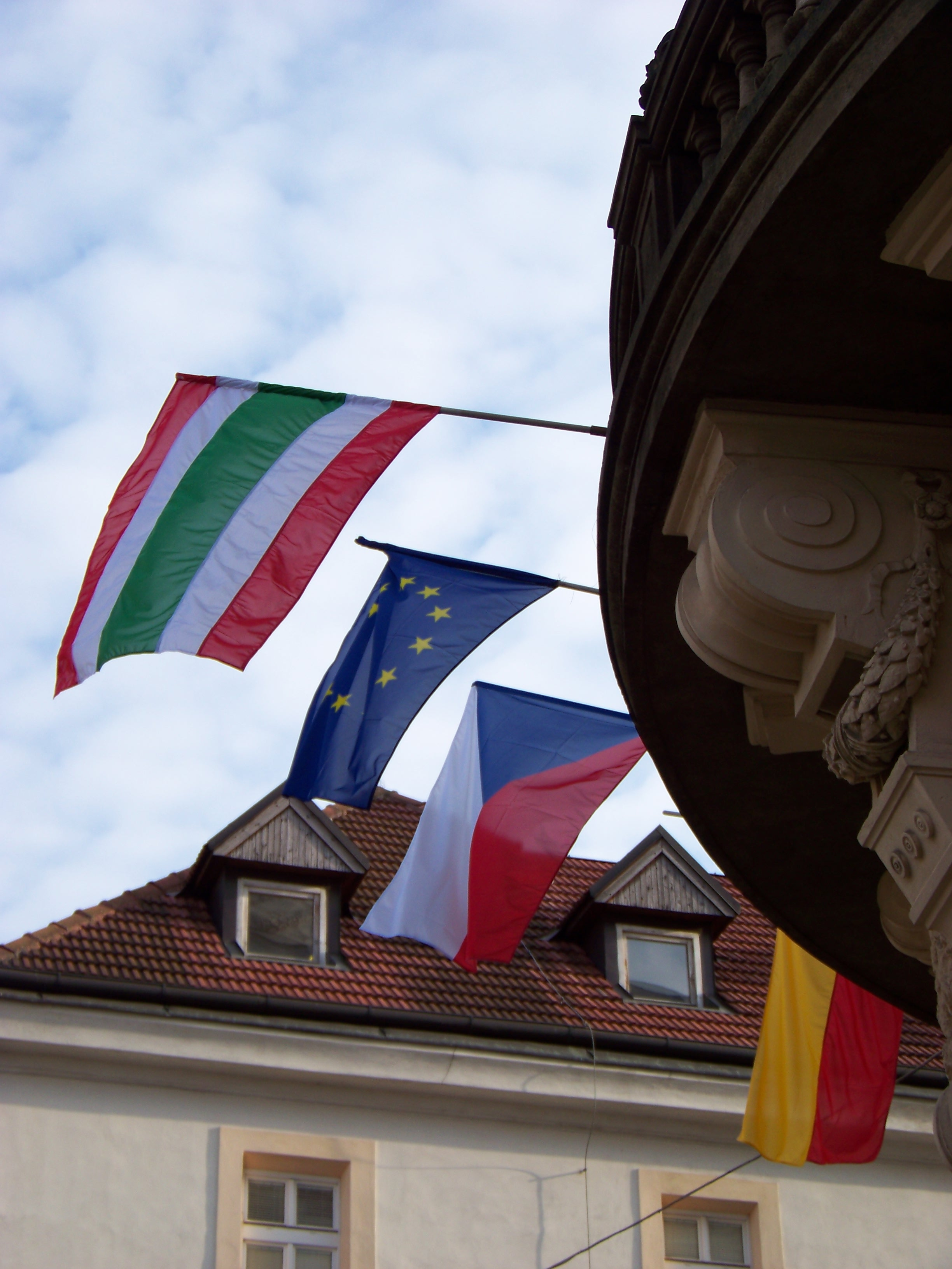 Prague-Žižkov, the Czech Republic. Flags of District of Prague 3, European Union, Czech Republic and City of Prague on the town hall of Prague 3 (former Žižkov town hall).